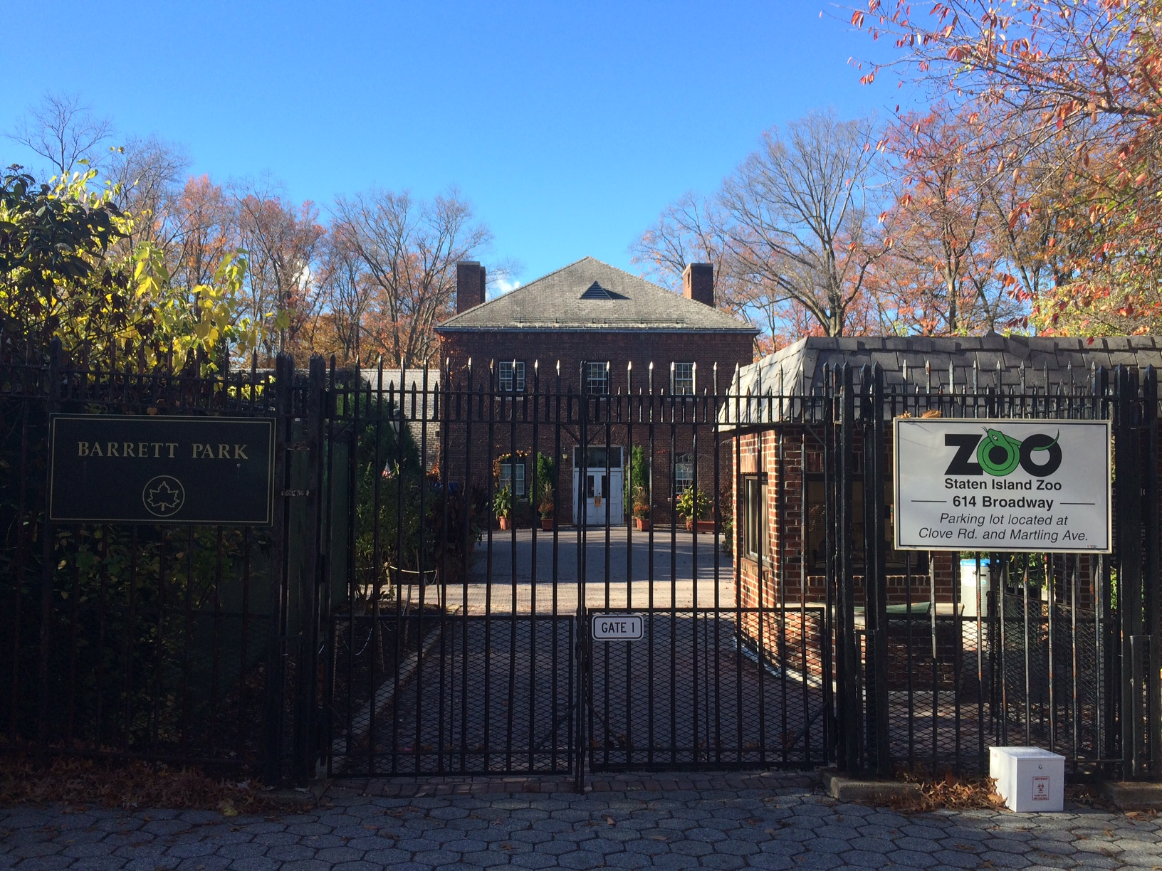 Main Entrance